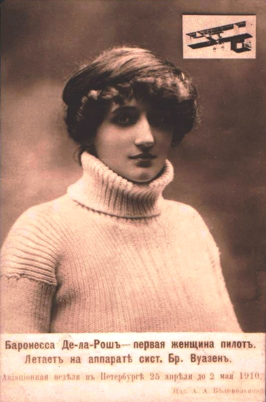 “Baroness de Laroche is first woman aviator. She flies on an airplane by brothers Voisin. Aviation week at Saint Petersburg from 25 April to 2 May 1910” (in reality from 8 May to 15 May 1910).